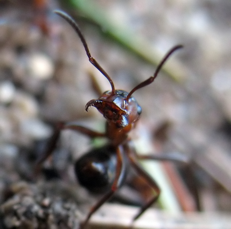 Ant proudly presents its mandibles